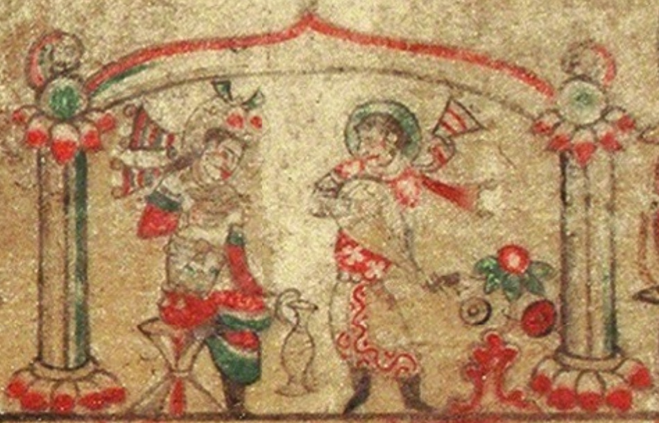 Painted tomb panel from the sarcophagus of the Zoroastrian Yü Hung’s tomb. A detail of the sarcophagus platform panel, from a tomb dated to the Sui dynasty, twelfth year of Kʻai-huang (592 AD), unearthed in 1999 from the tomb of Yü Hung at Wang-kuo village in Tʻai-yüen, Shan-hsi, marble with ink and pigments. Collection of the Shan-hsi Museum (Shanxi Museum).The detail depicts two nimbate male figures dressing in Sasanian-style attire, wearing Persian (Sasanian) headdress, drinking wine and playing pipa. They all have deep-set eyes and beak nose, probably of Persian or Sogdian origin.